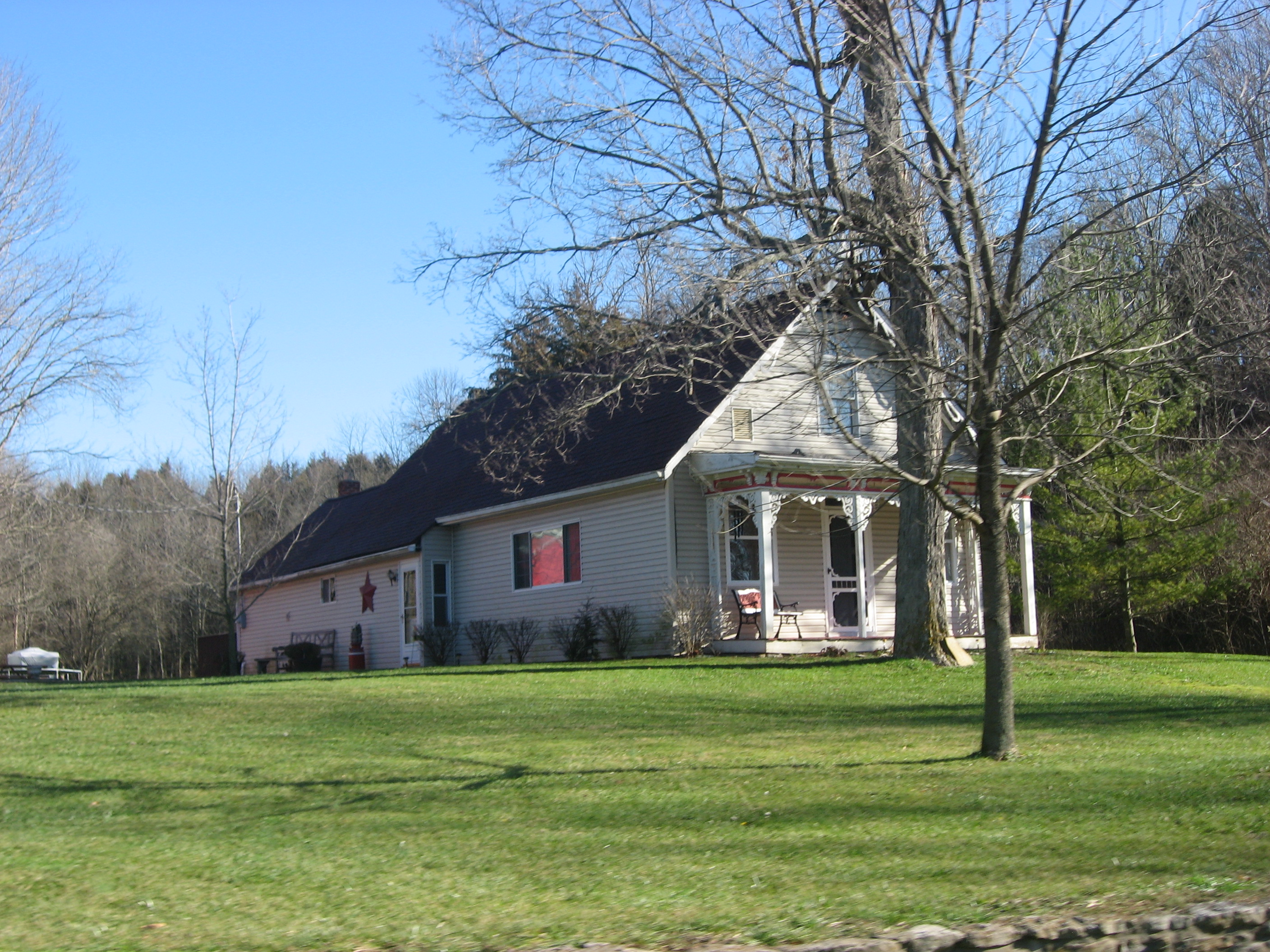 Front and northern side of the James P. Hidley Cottage, located at 1820 Oxford-Reily Road south of Oxford in Reily Township, Butler County, Ohio, United States. Built in 1860, it is listed on the National Register of Historic Places.